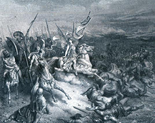 The Angel Is Sent to Deliver Israel (2 Macc. 15:20-24)